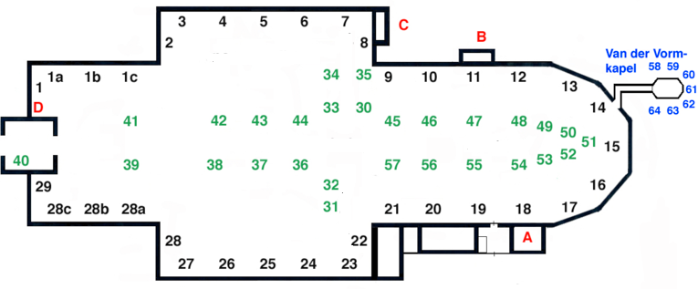 Map of stained glass numbers in Sint Janskerk, Gouda.)